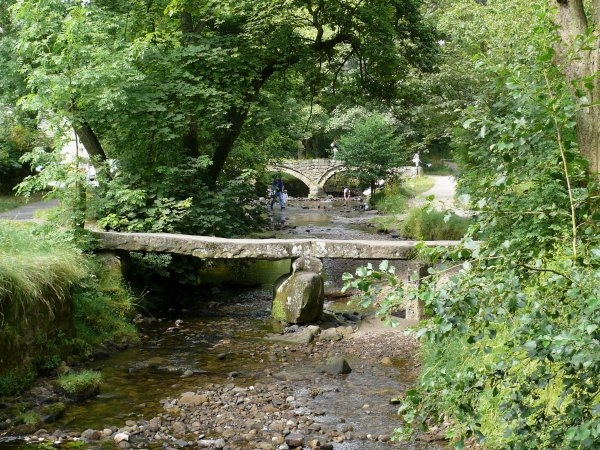 Clapper and packhorse bridges over Wycoller Beck at Wycoller, Lancashire. NB The free licensing applies to this version of the work: 600x450px. All rights to the original, high resolution version are retained.